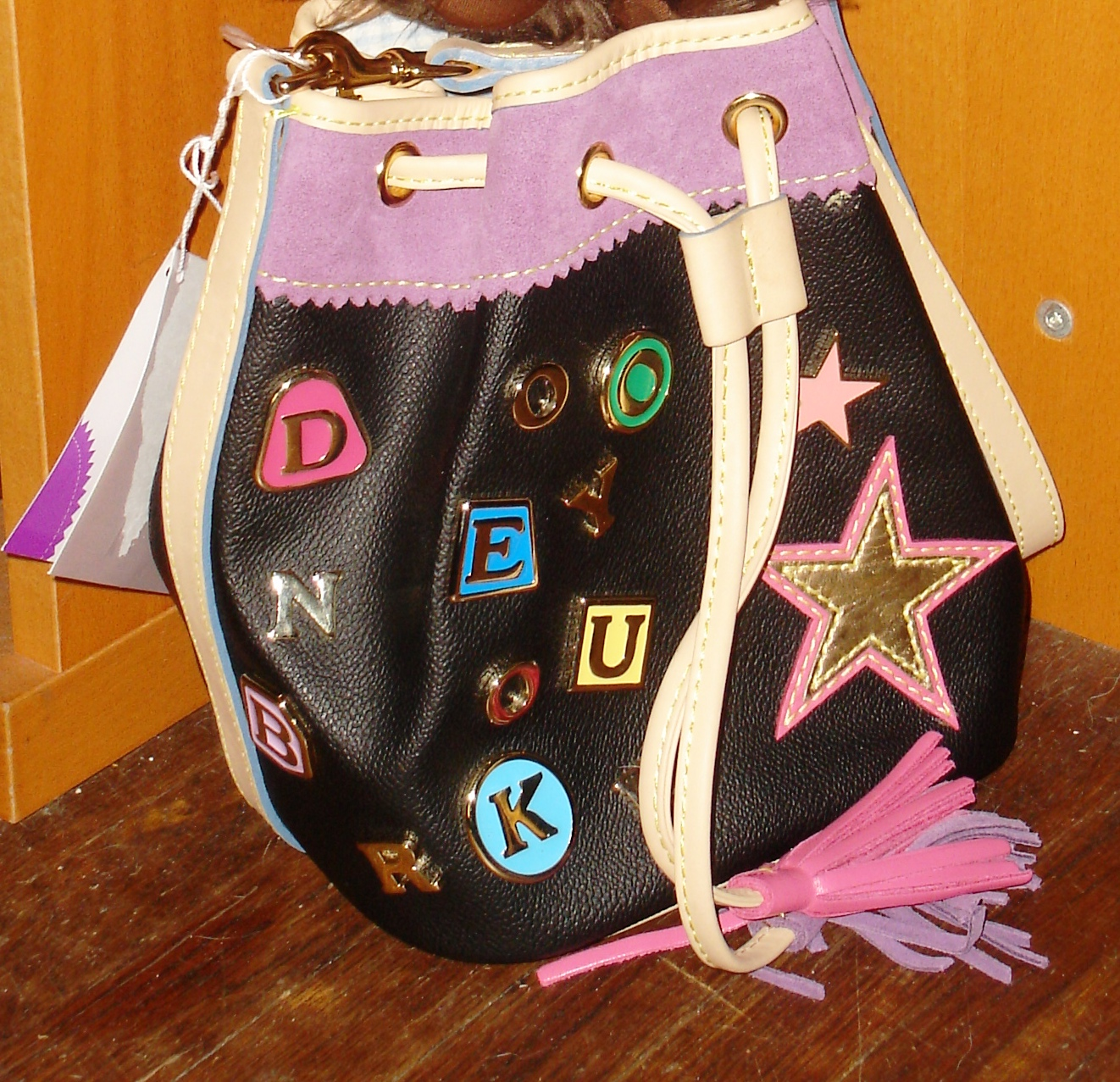 Dooney and Bourke purse (cropped); Source: CC-BY from Shoshanah